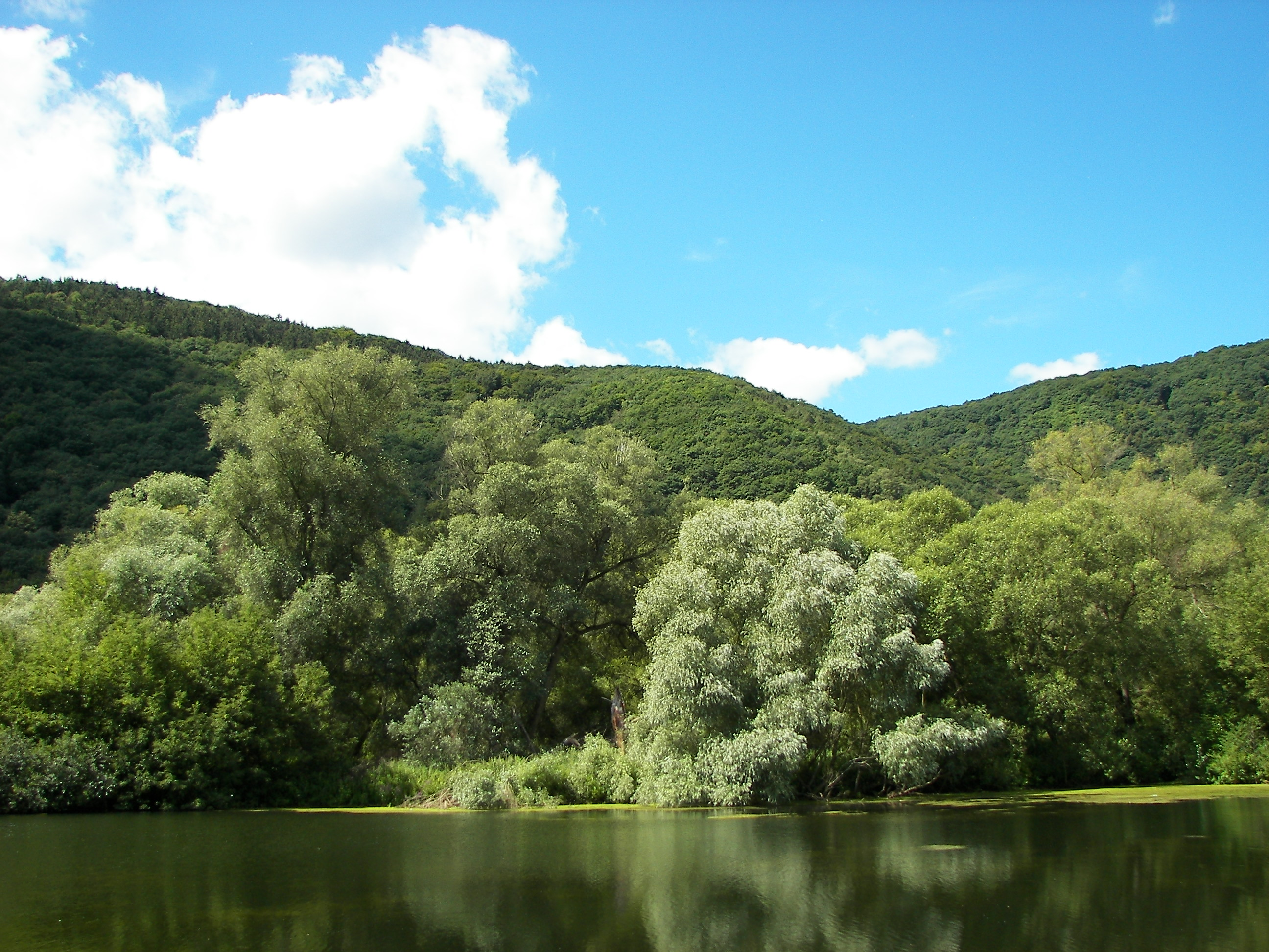 White Willow (Salix alba), Location: Riparian forest near Bingen, Rheinland-Pfalz, Deutschland